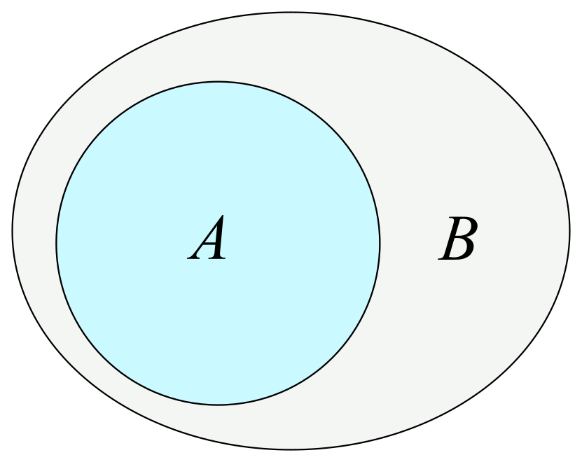 subset of two sets